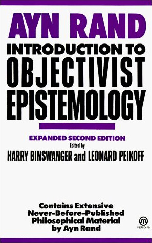 Cover "Introduction to Objectivist Epistemology"